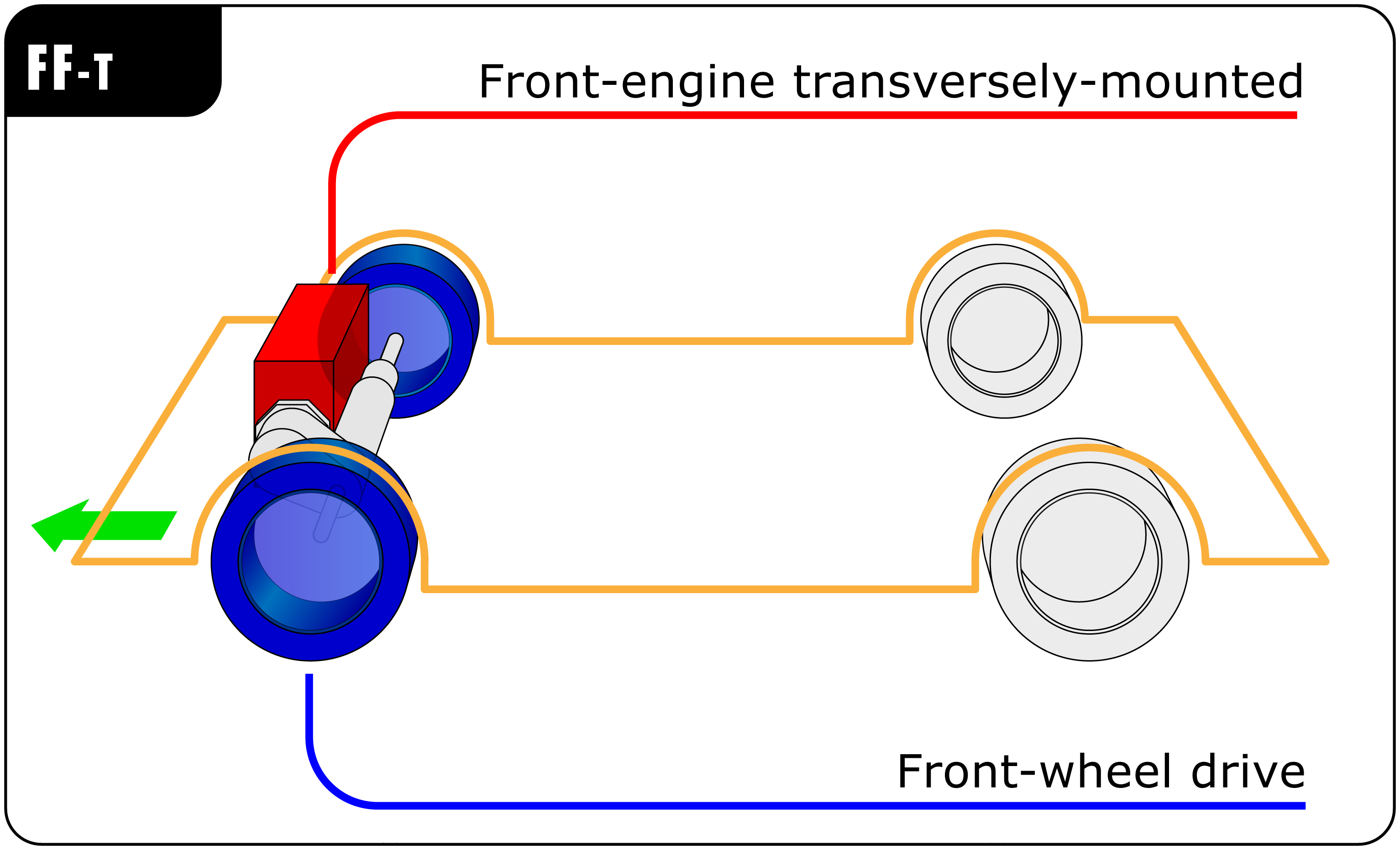 Vehicle engine and drive wheel placement diagrams (German versions coming soon)